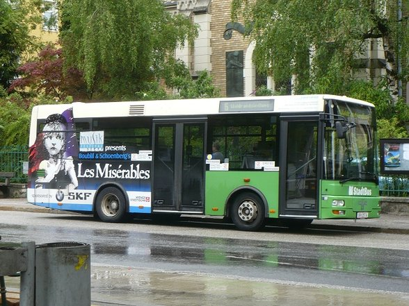 MAN/Göppel NM 223 city bus in Steyr, Austria.